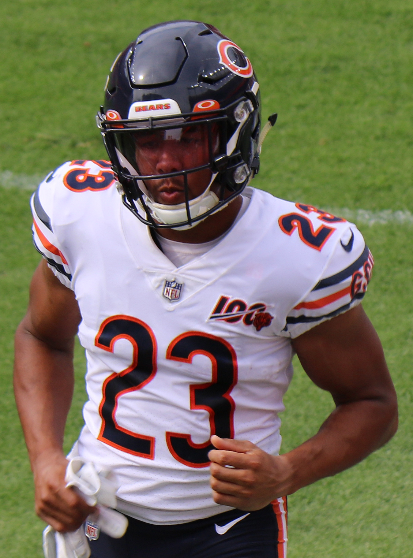 Kyle Fuller, a National Football League player.